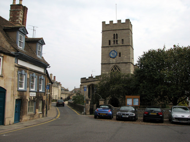 Stamford: St George's Church and St George's Square